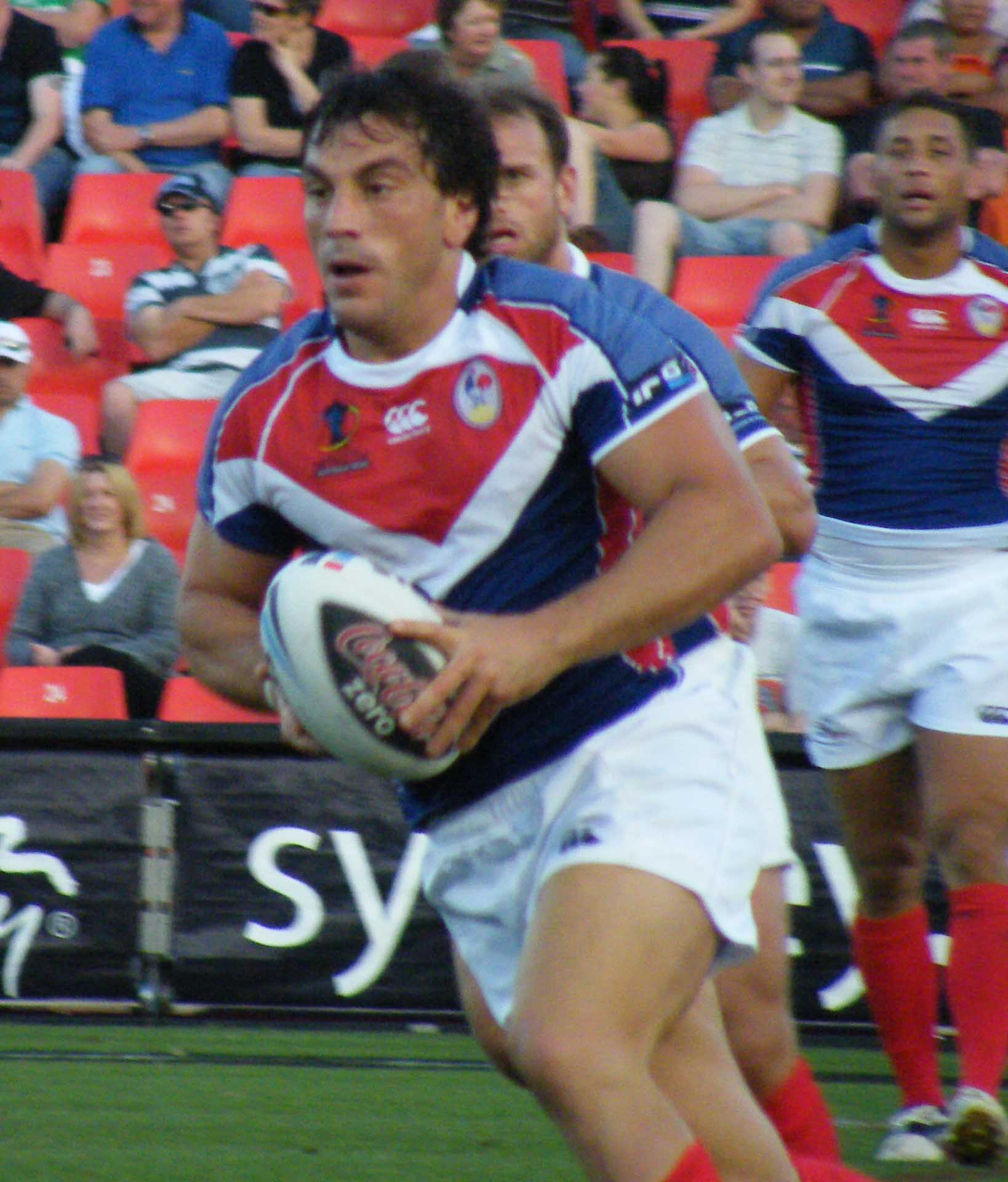 RLWC 2008 - Samoa v France at Penrith. French interchange Laurent Carrasco